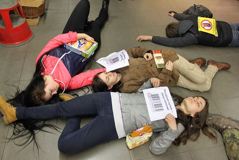 It is in the public domain in accordance with the principle of "Vidsich" "Copyleft" [2]